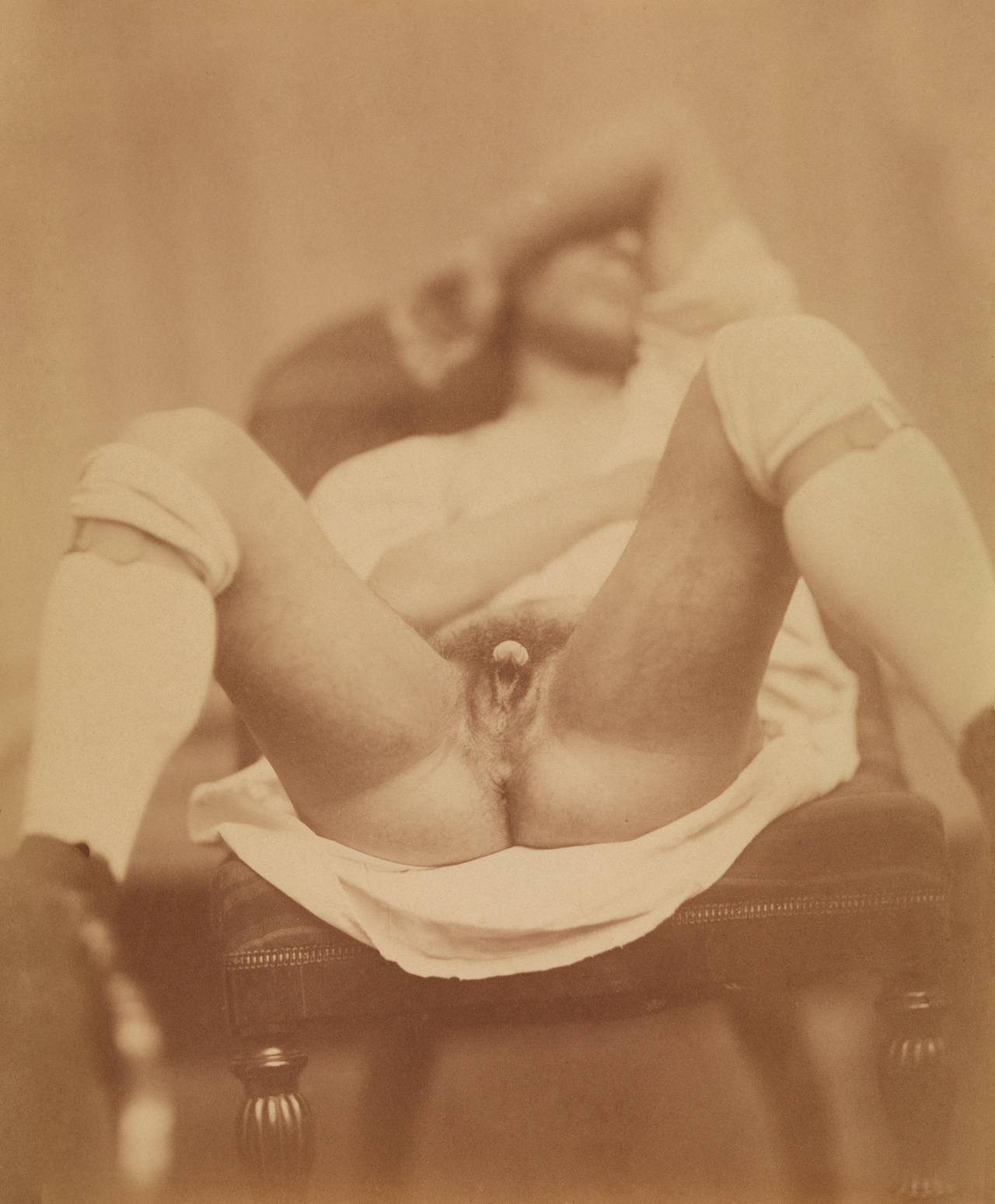 Photograph of an intersex person showing genitalia